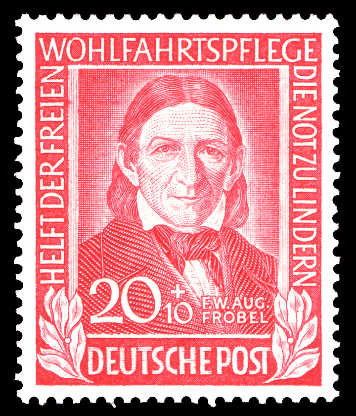 Social welfare stamp series 1949, Friedrich Fröbel (1782-1852) Ausgabepreis: 20+10 Pfennig First Day of Issue / Erstausgabetag: 14. Dezember 1949 Michel-Katalog-Nr: 119